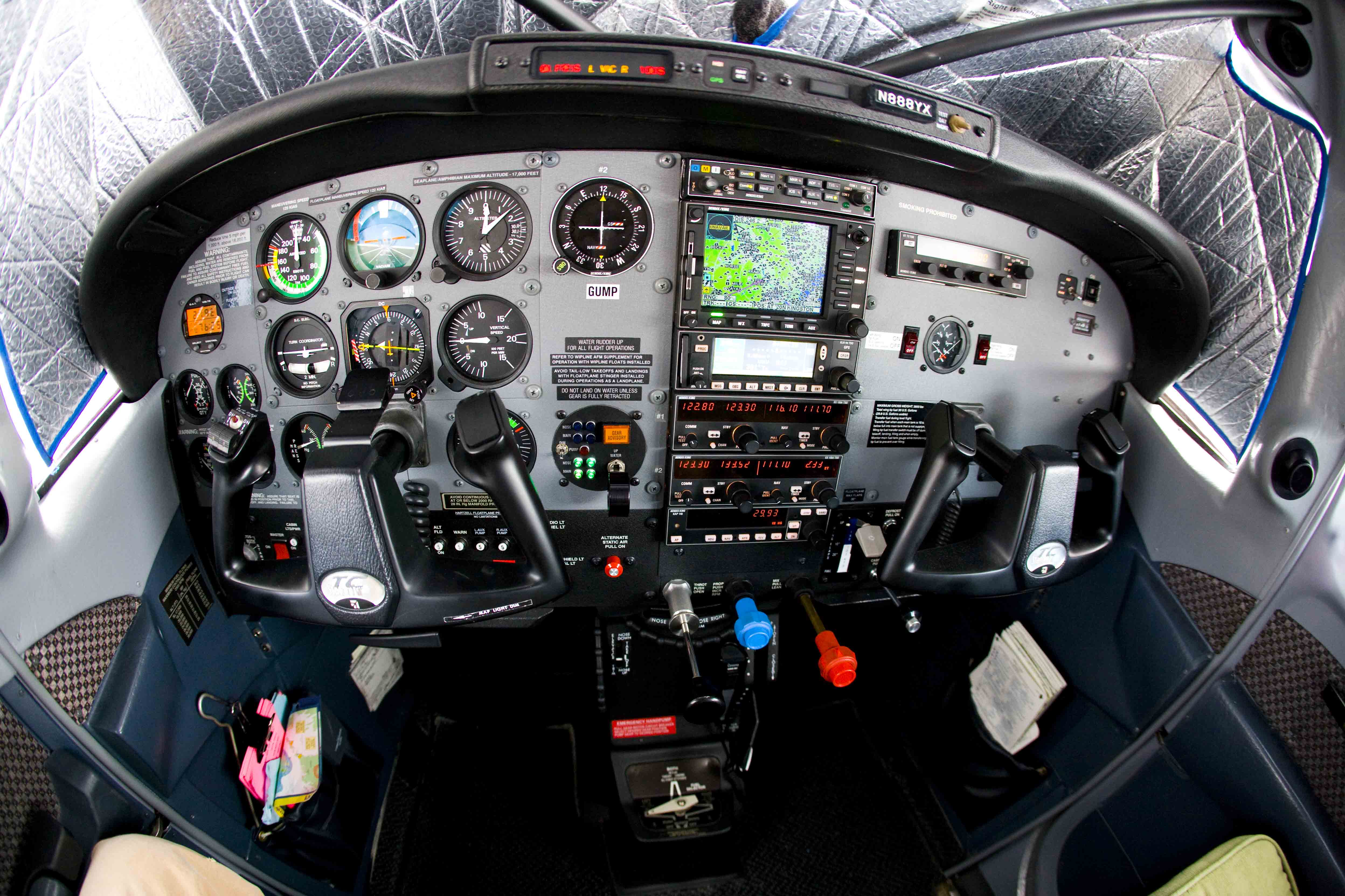 Panel of 2001 Cessna 206 amphibian (float plane)